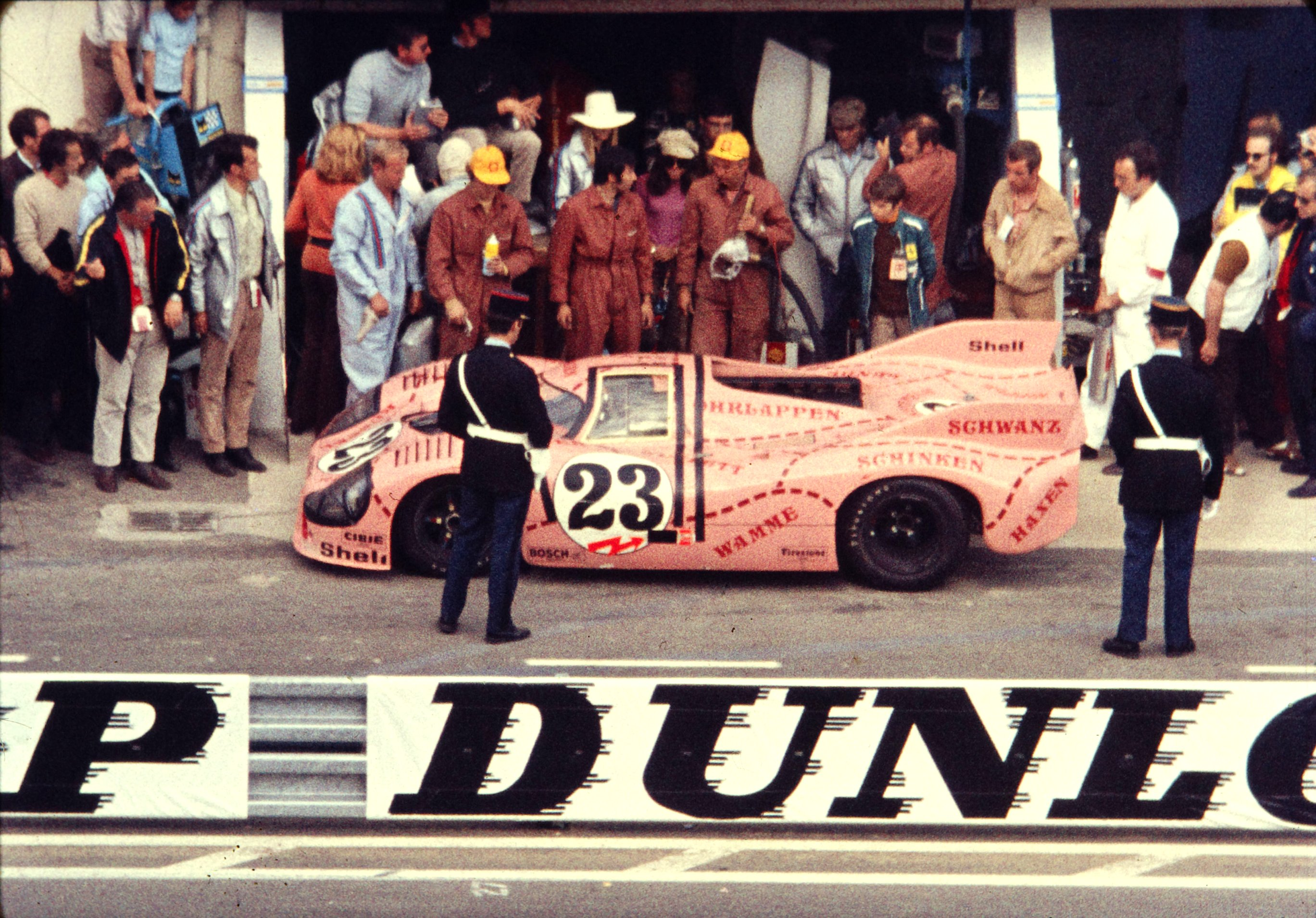 Porsche 917 / 20 N°23 Martini Internatinal Racing Team Technique : Catégorie : Sport Moteur : F12 Porsche 4907 cm3 Pilotes : Reinhold Joest Willy Kauhsen